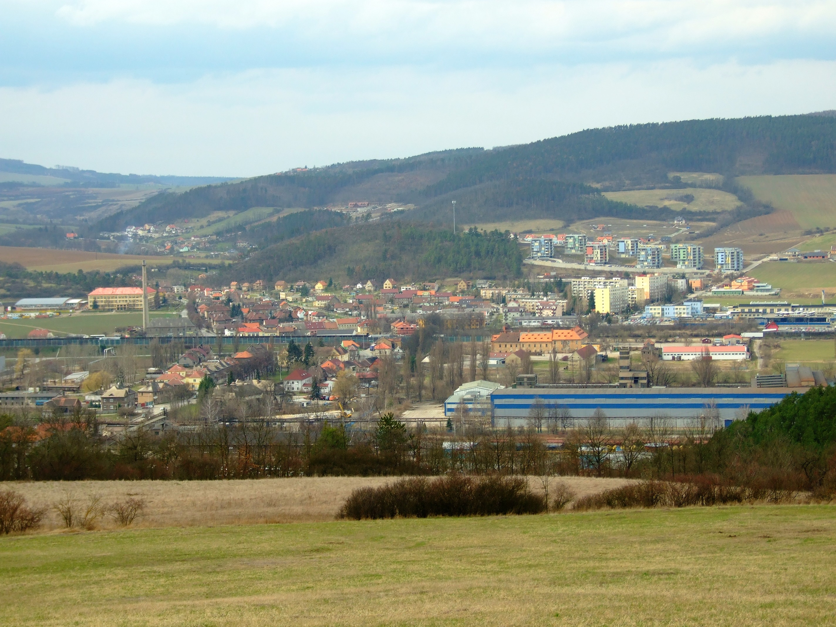 City of Králův Dvůr and surrounding nature in Central Bohemian region, CZhelp